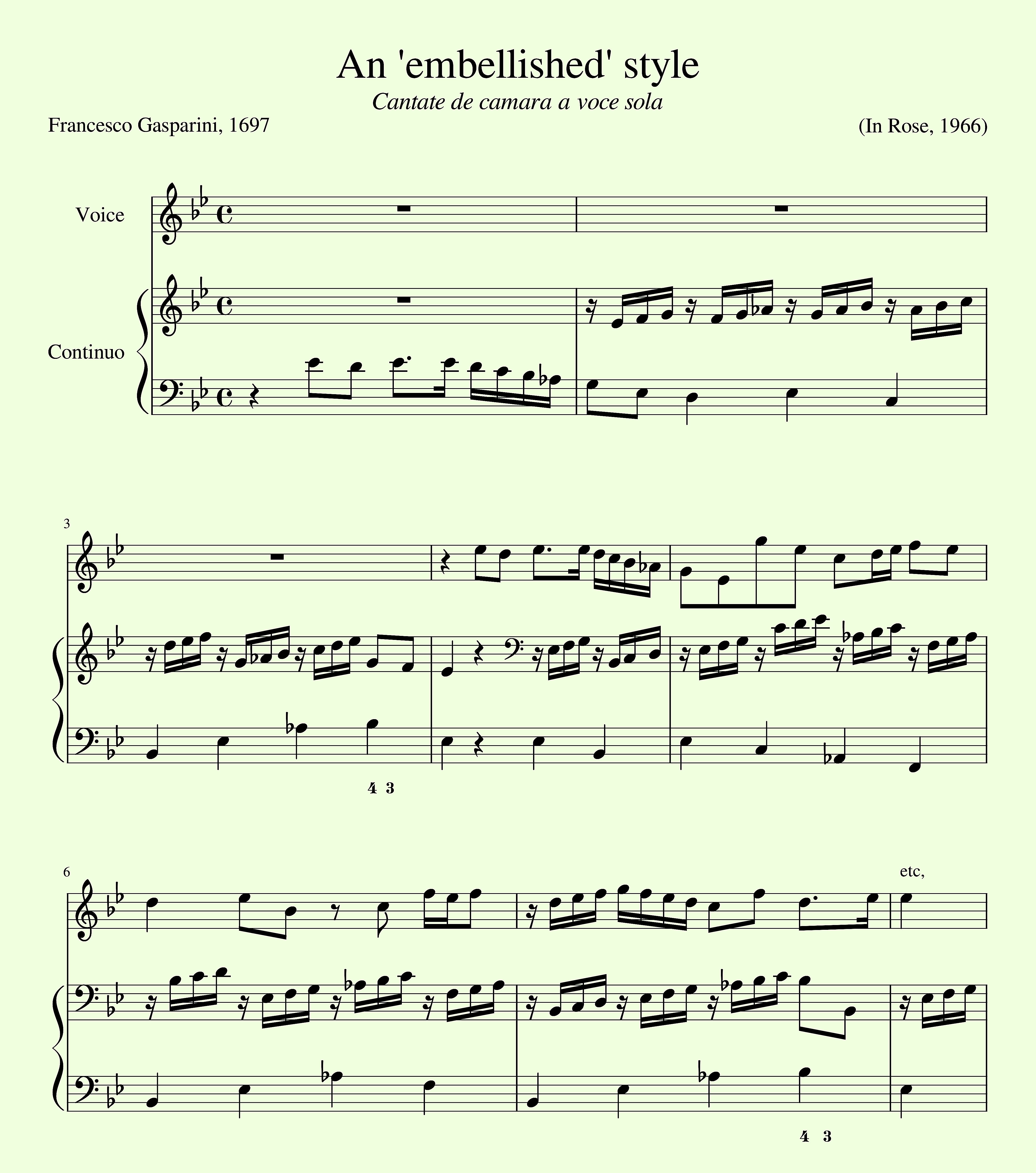 A fragment illustrating an embellished style of realizing a continuo, 1697